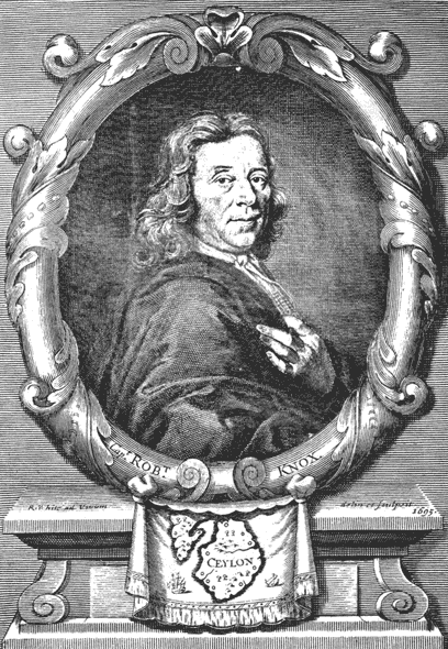 Robert Knox from the Frontispiece of An Historical Relation of the Island Ceylon (1681)